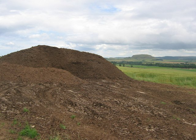 Poultry Waste. Poultry waste, foul smelling unsavoury stuff is used as fertilizer. I have experience of problems with sheep being poisoned by copper on land overfertilised with turkey muck, use sparingly. Traprain Law is beyond the midden.